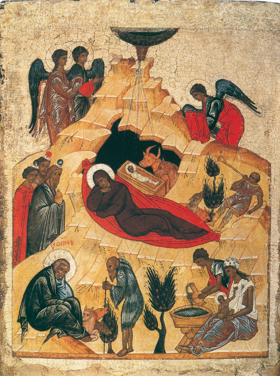 an icon from Gostinopolye Church of St. Nicholas